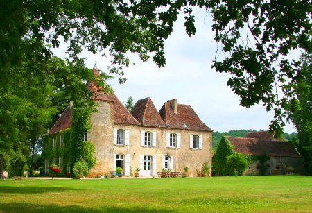 Castle of Falgueyrac, 24260 Saint-Chamassy, France